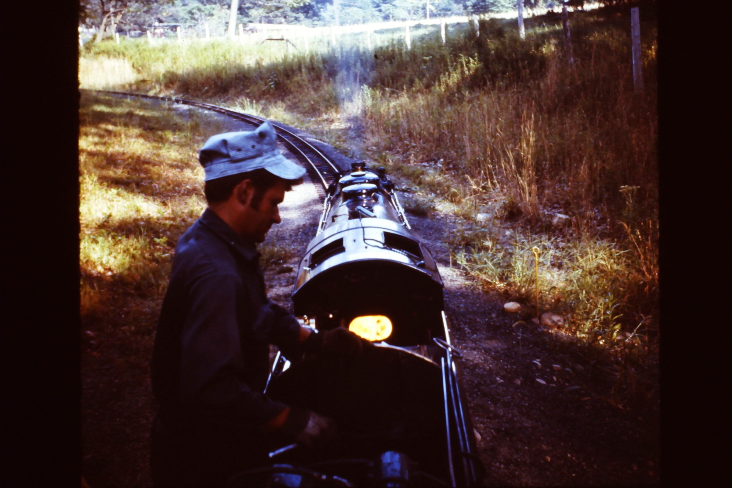 Wally From Columbia (NJ) (talk) 17:35, 31 December 2010 (UTC)